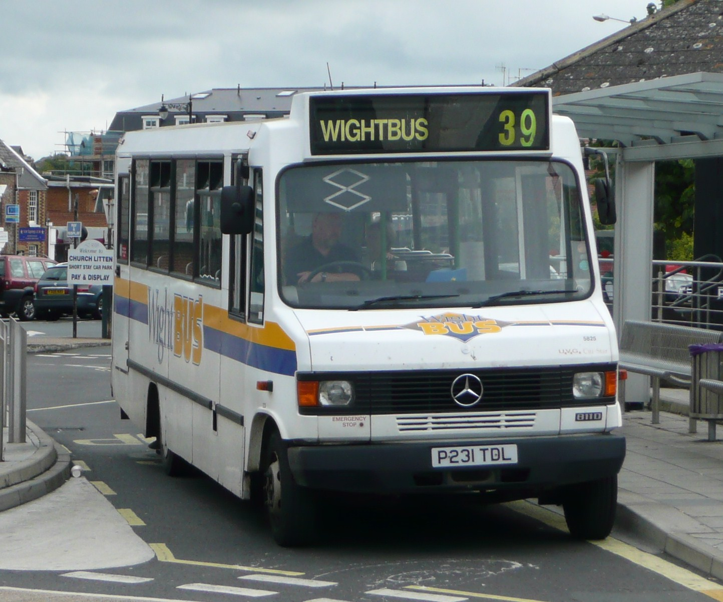 Wightbus 5825 (P231 PDL), a Mercedes-Benz 811D/UVG CityStar, in Newport, Isle of Wight, bus station on route 39.